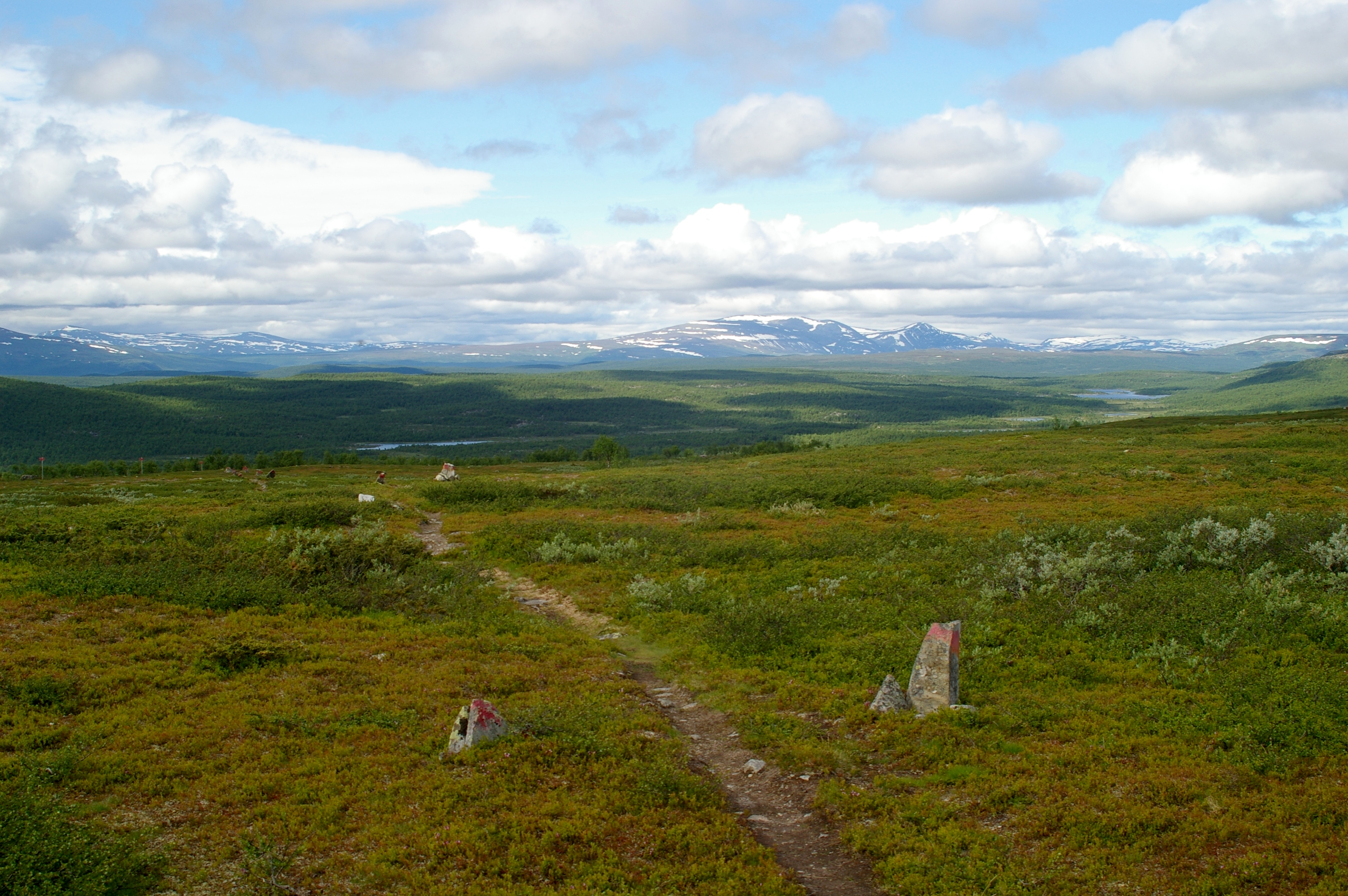 Pieljekaise National Park above Jäkkvik on Kungsleden, view to the west